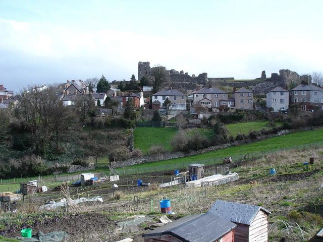 Allotments and castle. Allotments in the town of Denbigh with the castle on the hill in the background